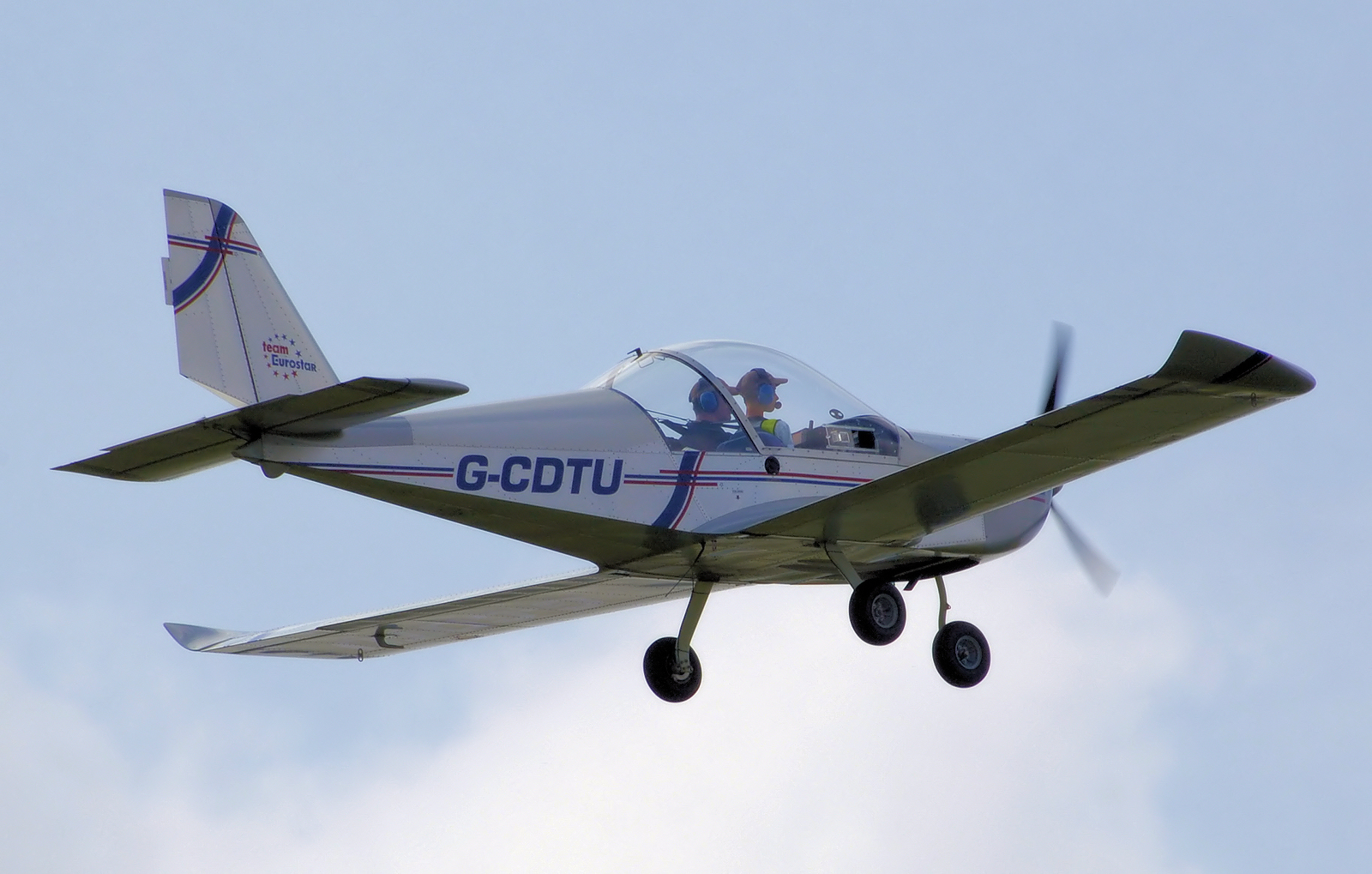 Evektor-Aerotechnik Eurostar EV-97 (G-CDTU) at Open Day at Kemble Airport (as of 2009 called Cotswold Airport), Gloucestershire, England.